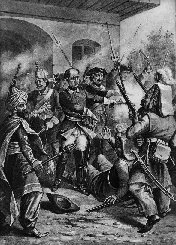 Swedish king Charles XII at Bender From the Library of Congress